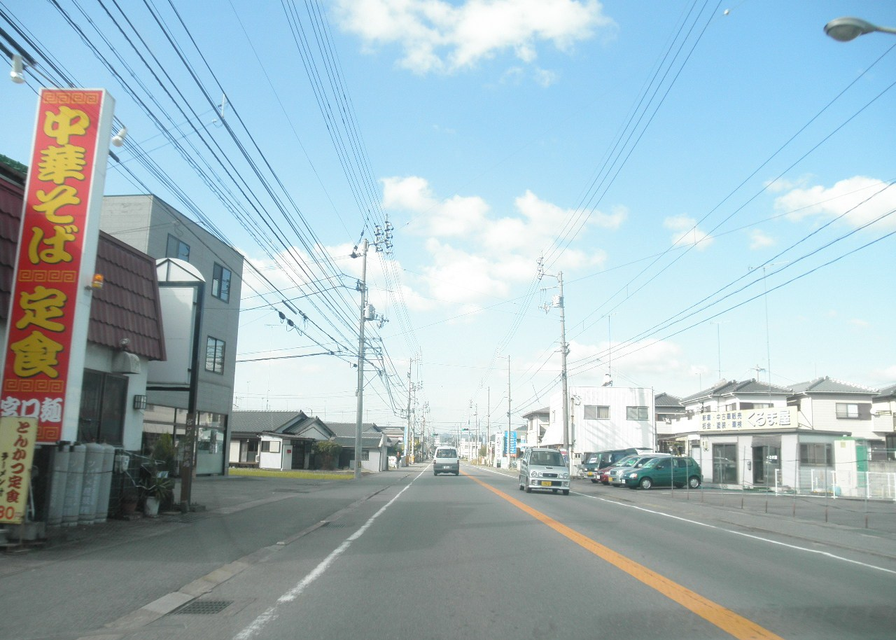 Yokosutown Komatsushimacity Tokushimapref Tokushimaprefectural road 120 Tokushima Komatsushima line